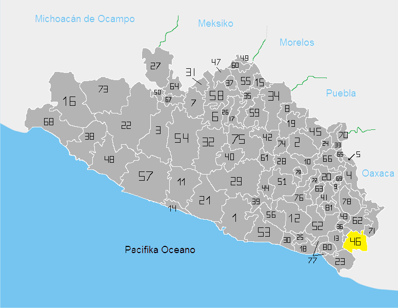 locator map